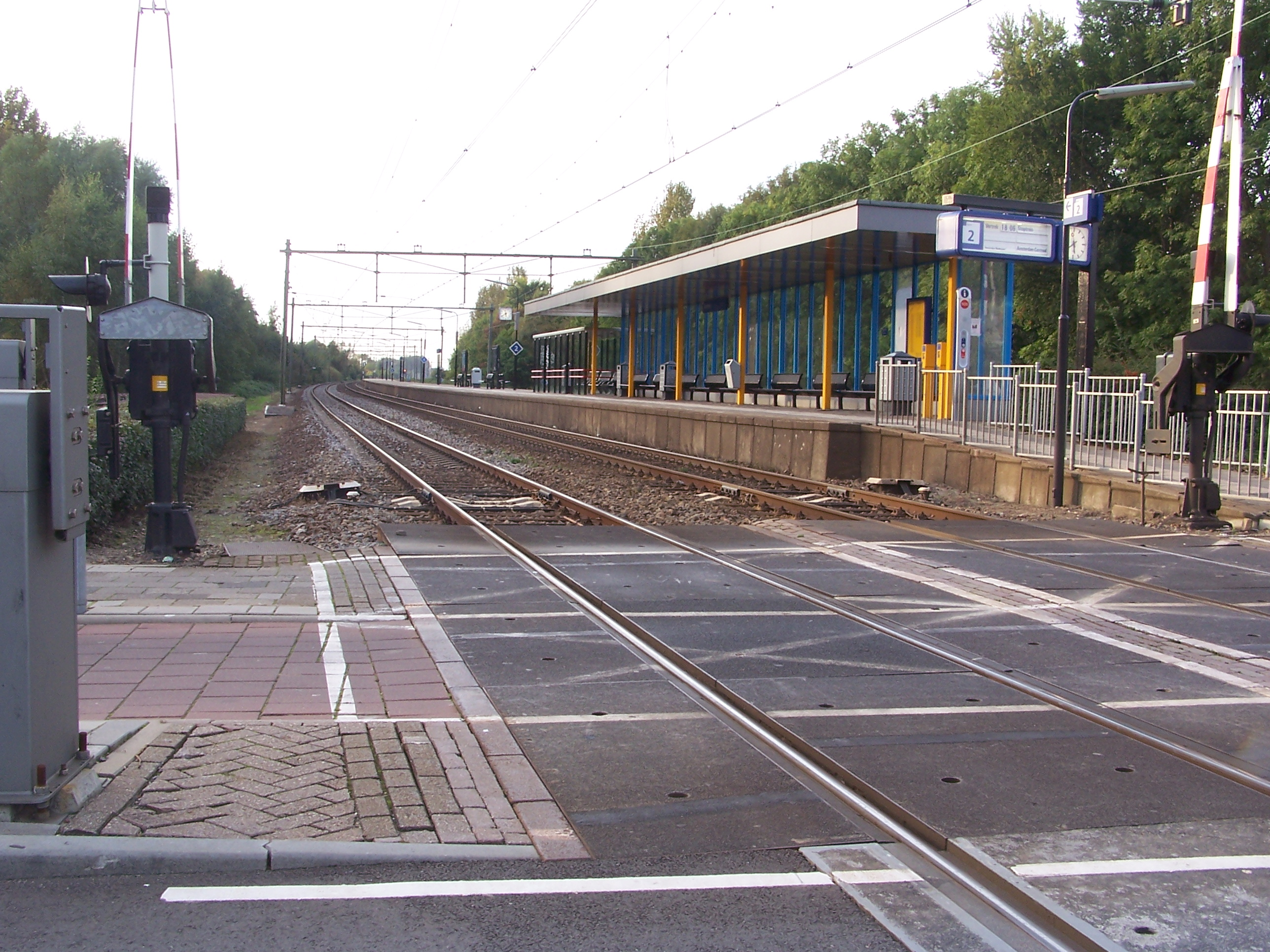 This picture shows the train station Diemen, a suburb of Amsterdam, in the Netherlands. Author:Mig de Jong, september 2005